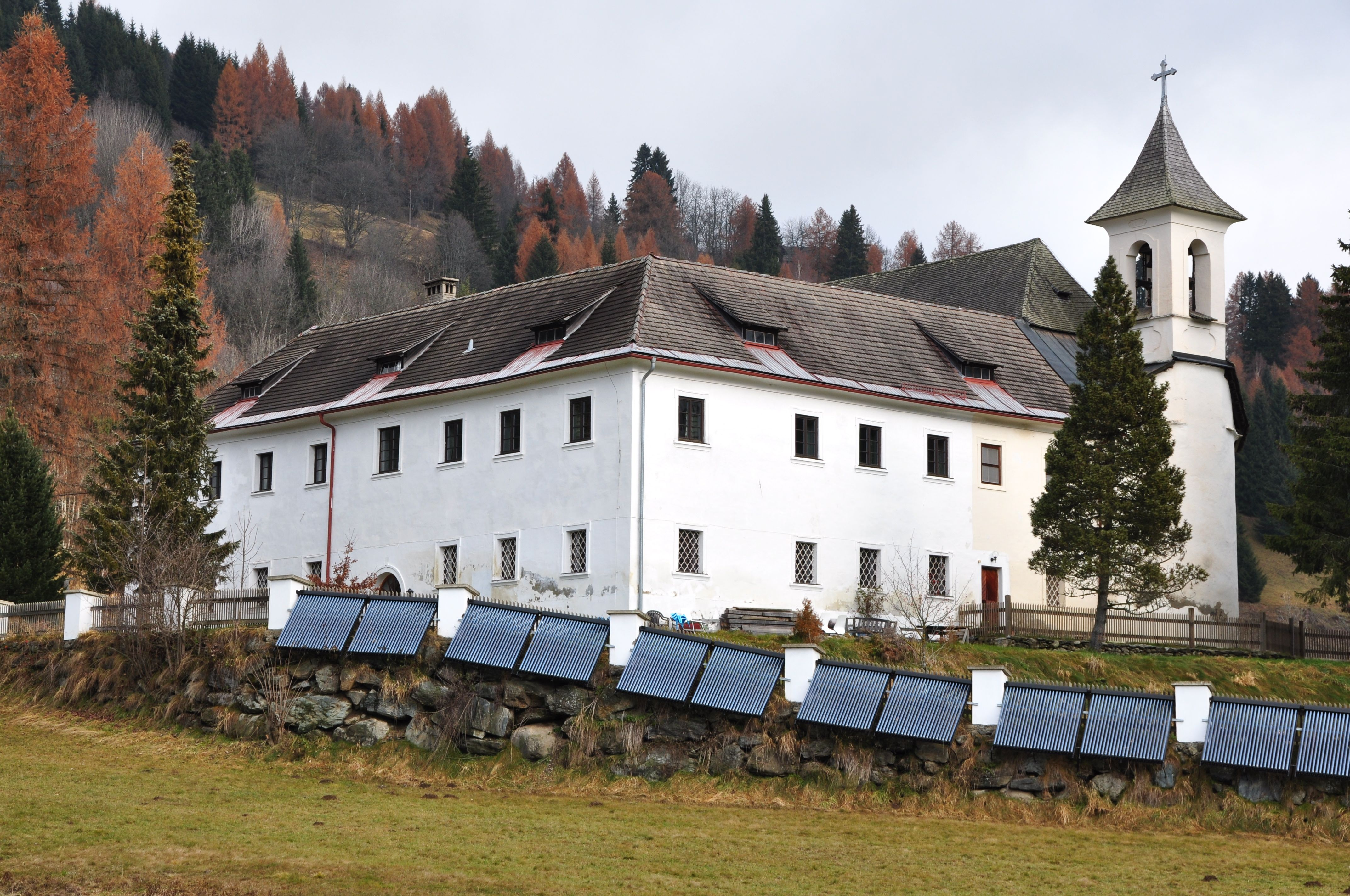 Former monastery, Carmelite hospice in Zedlitzdorf #34, municipality Gnesau, district Feldkirchen, Carinthia, Austria, EU